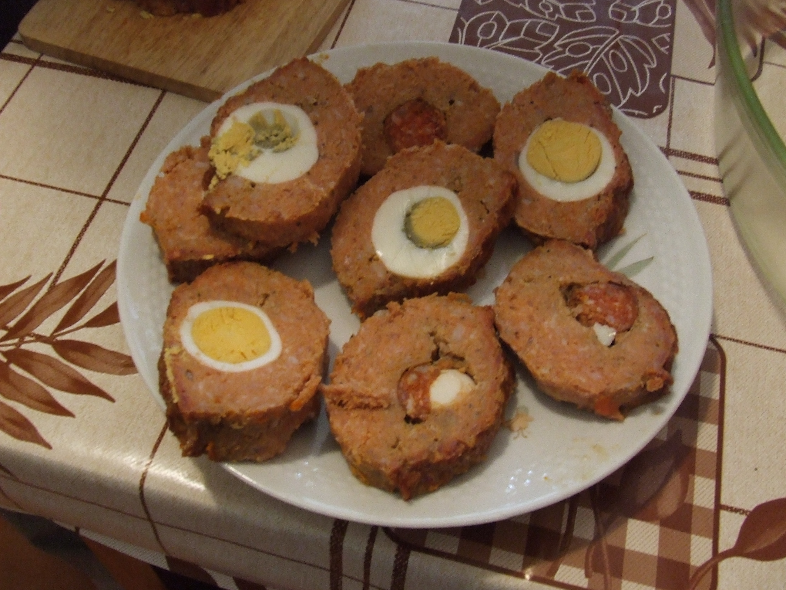 stefánia vagdalt